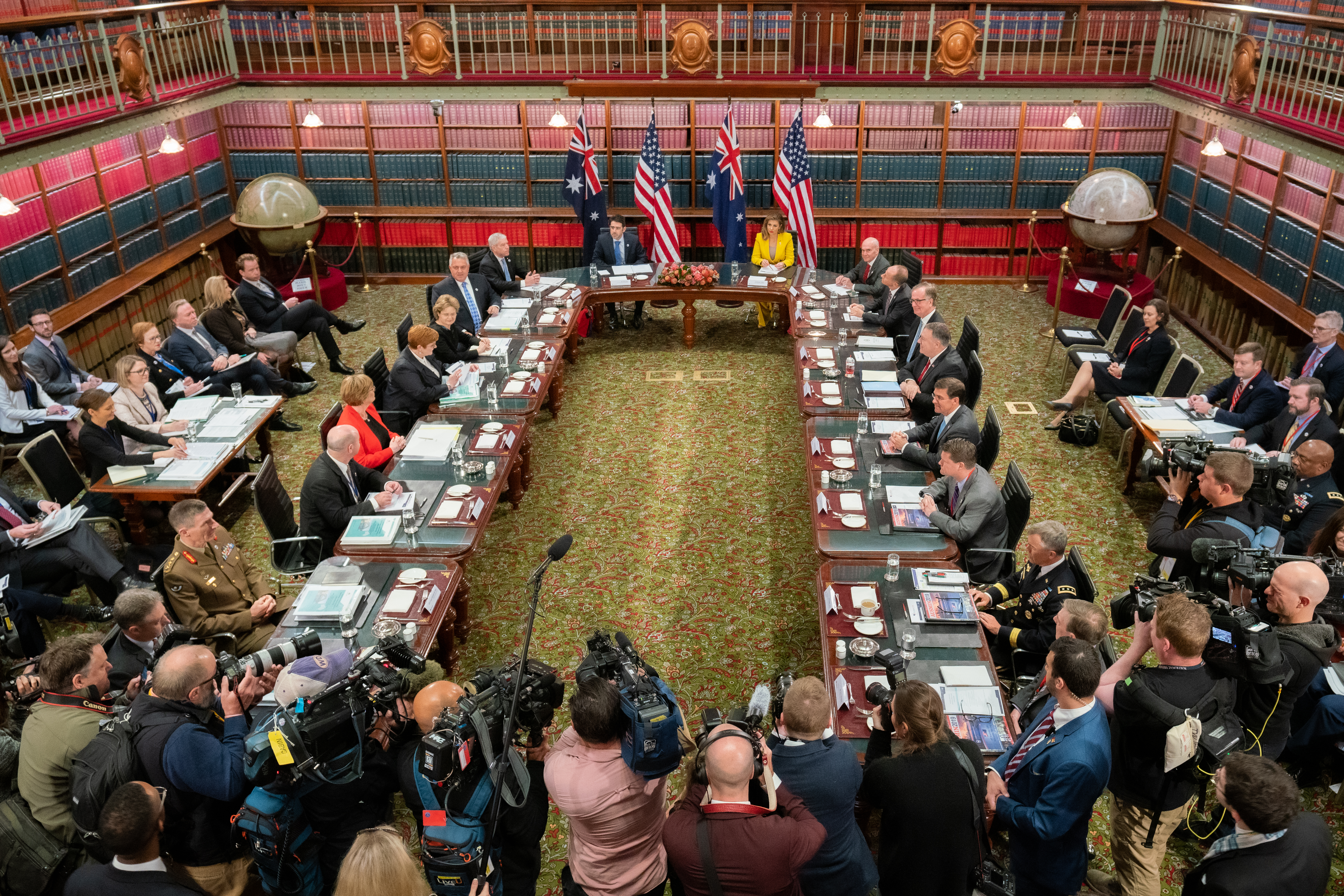 Secretary Michael R. Pompeo makes introductory remarks at AUSMIN at the Parliament of New South Wales House Jubilee Room with Foreign Minister Payne, Defense Minster Reynolds, and U.S. Secretary of Defense Esper in Sydney Australia on August 3, 2019. [State Department photo by Ron Przysucha/ Public Domain]